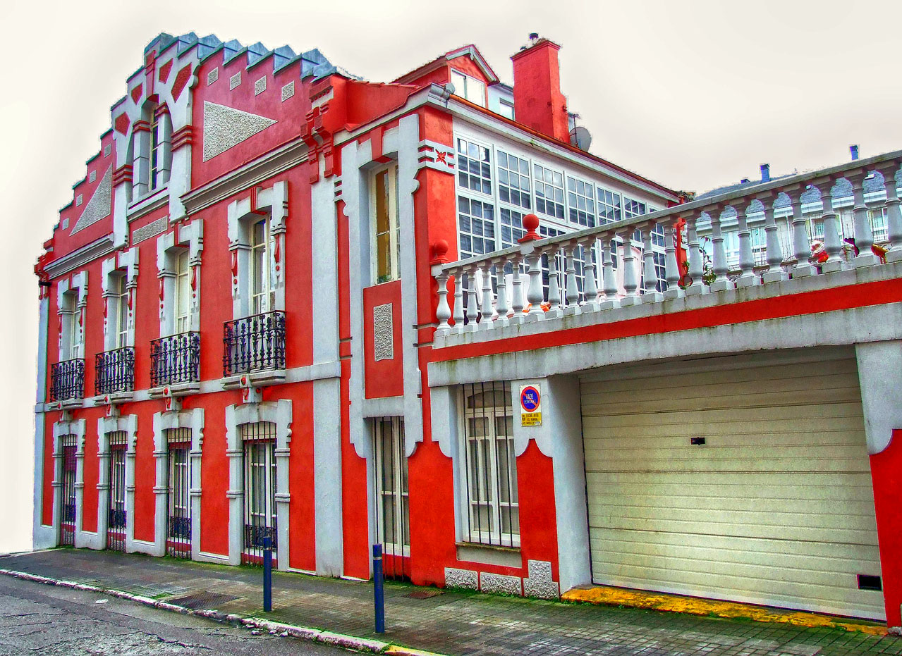 Rodríguez Fernández House, built in 1912. It is a modernist-style building located in the city of Ferrol (Spain), the work of the Galician architect Rodolfo Ucha Piñeiro.